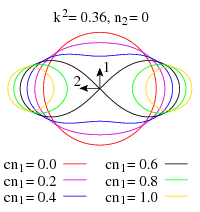 Curves with common Kovalavskaya integral